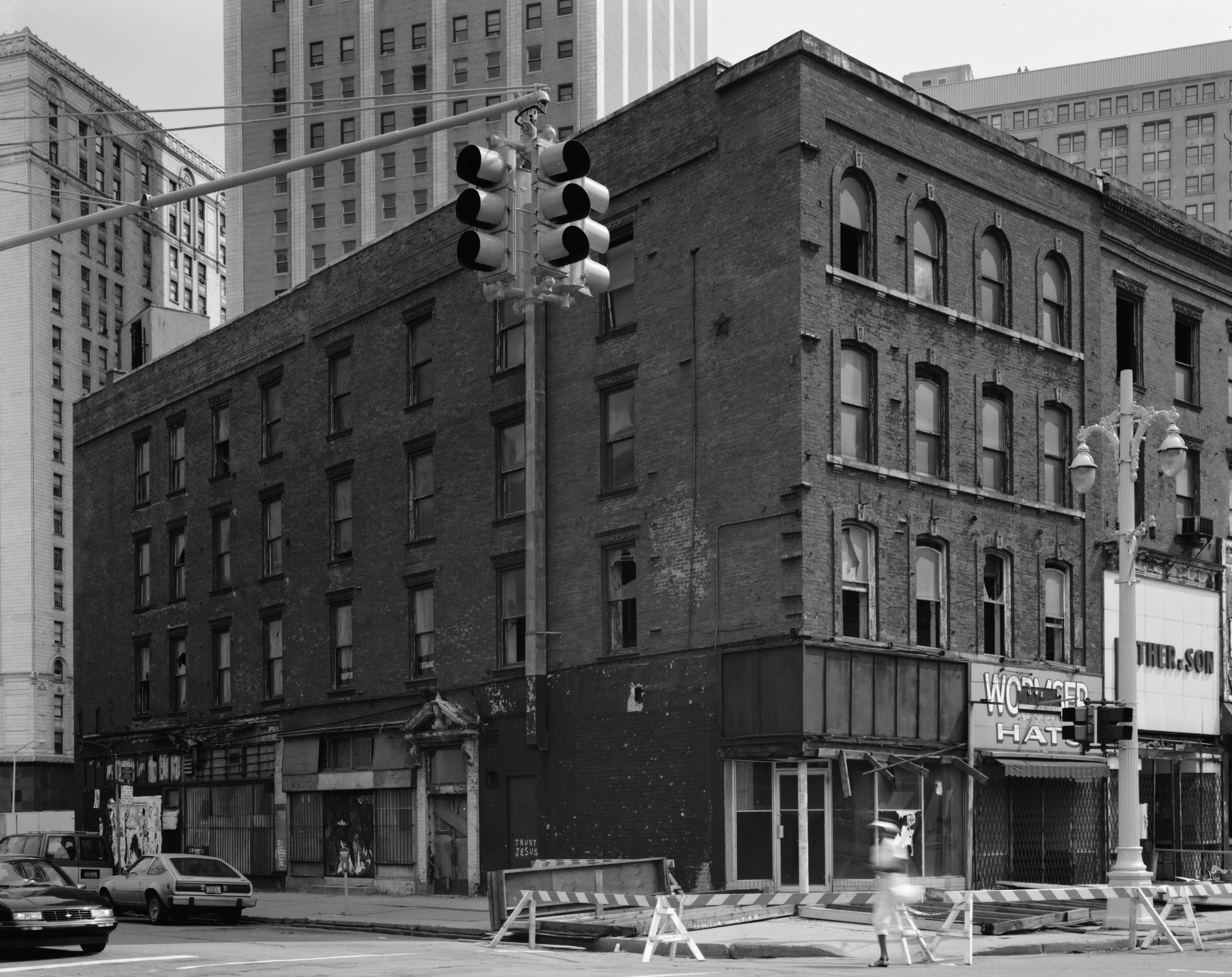 74-78 Monroe Ave — Detroit, Michigan. Historic American Buildings Survey—HABS image (1989).